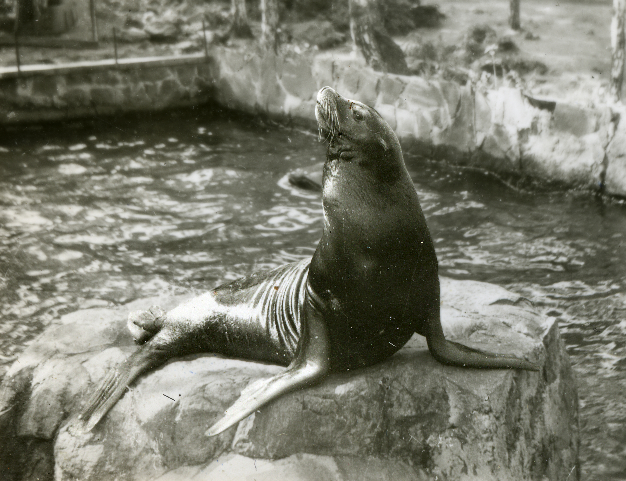 California Sea Lion (Zalophus californianus) at Furuvik Zoo, Furuvik, Gävle Municipality, Gästrikland, Gävleborg County, Sweden. The photo was taken by Sonja Lindberg in 1955.